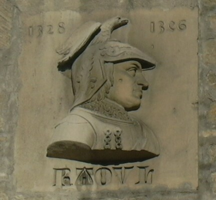 This picture shows Duke of Lorraine Rudolph's effigy on Door of The Craffe at Nancy.